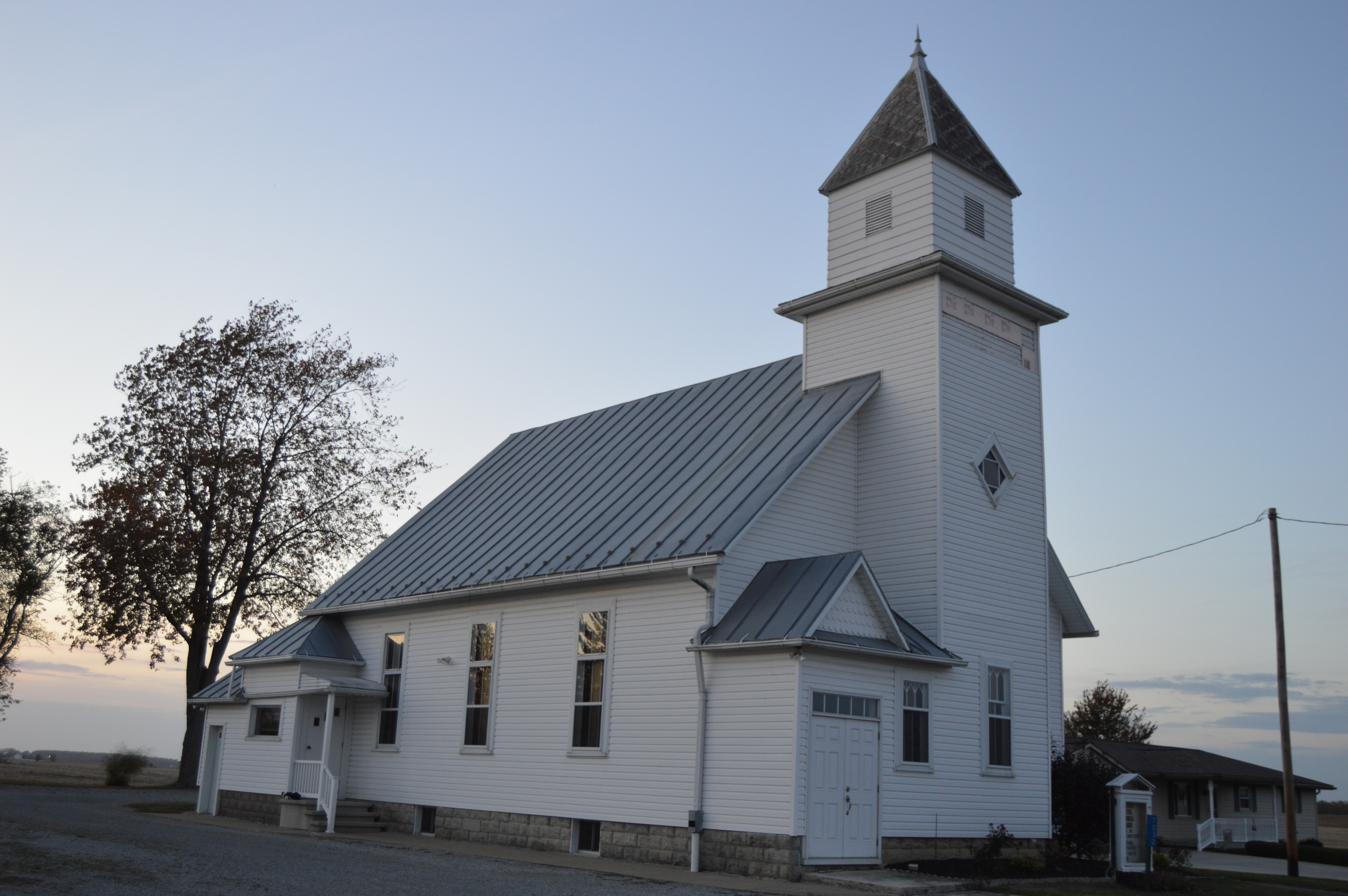 Front and southern side of the Plankton United Methodist Church, located at 7032 Marion-Melmore Road at the tiny community of Plankton in Texas Township, Crawford County, Ohio, United States.